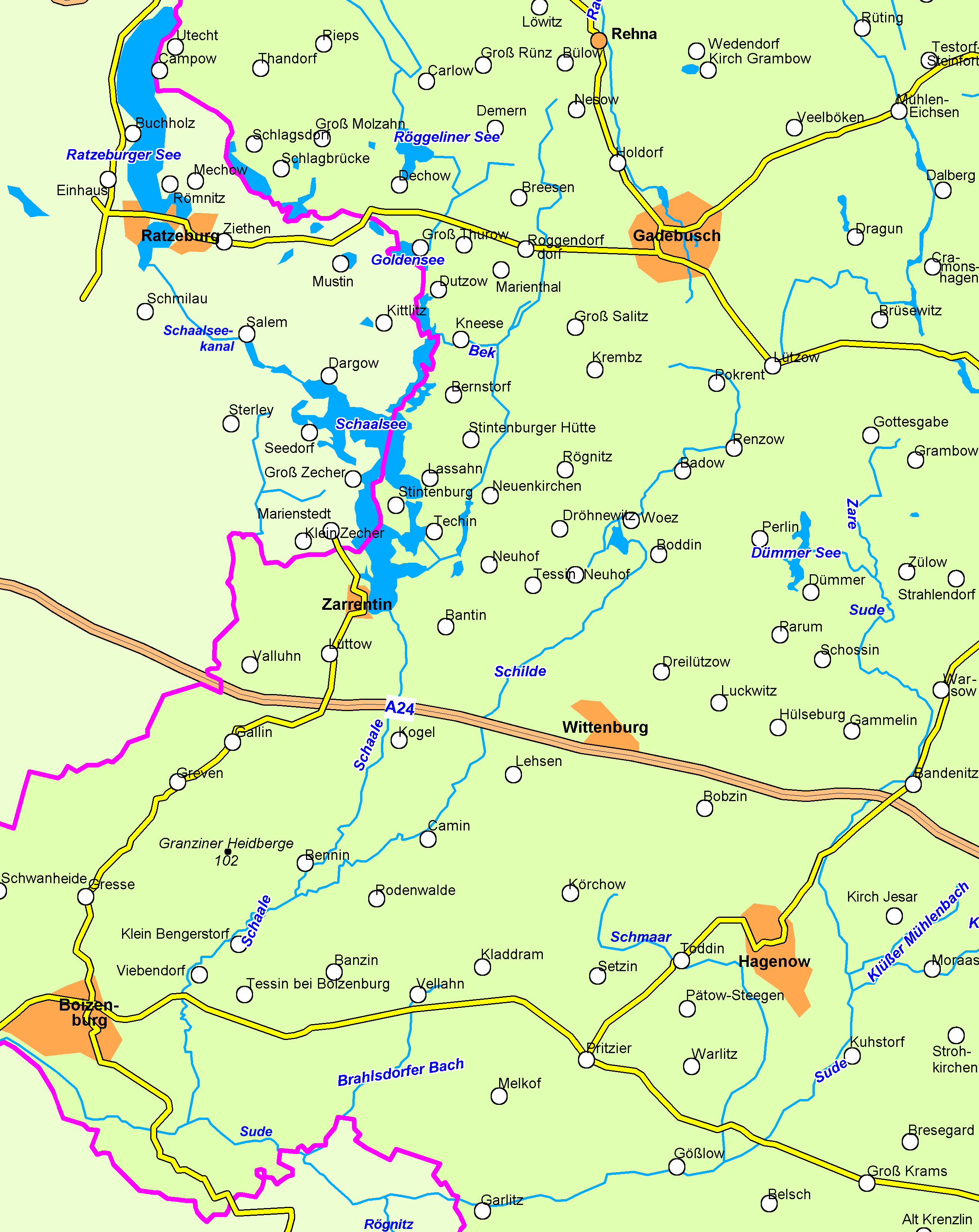 Map of lakes Schaalsee, Ratzeburger See and the rivers Schilde, Schaale, Sude, Schmaar and Zare in northern Germany